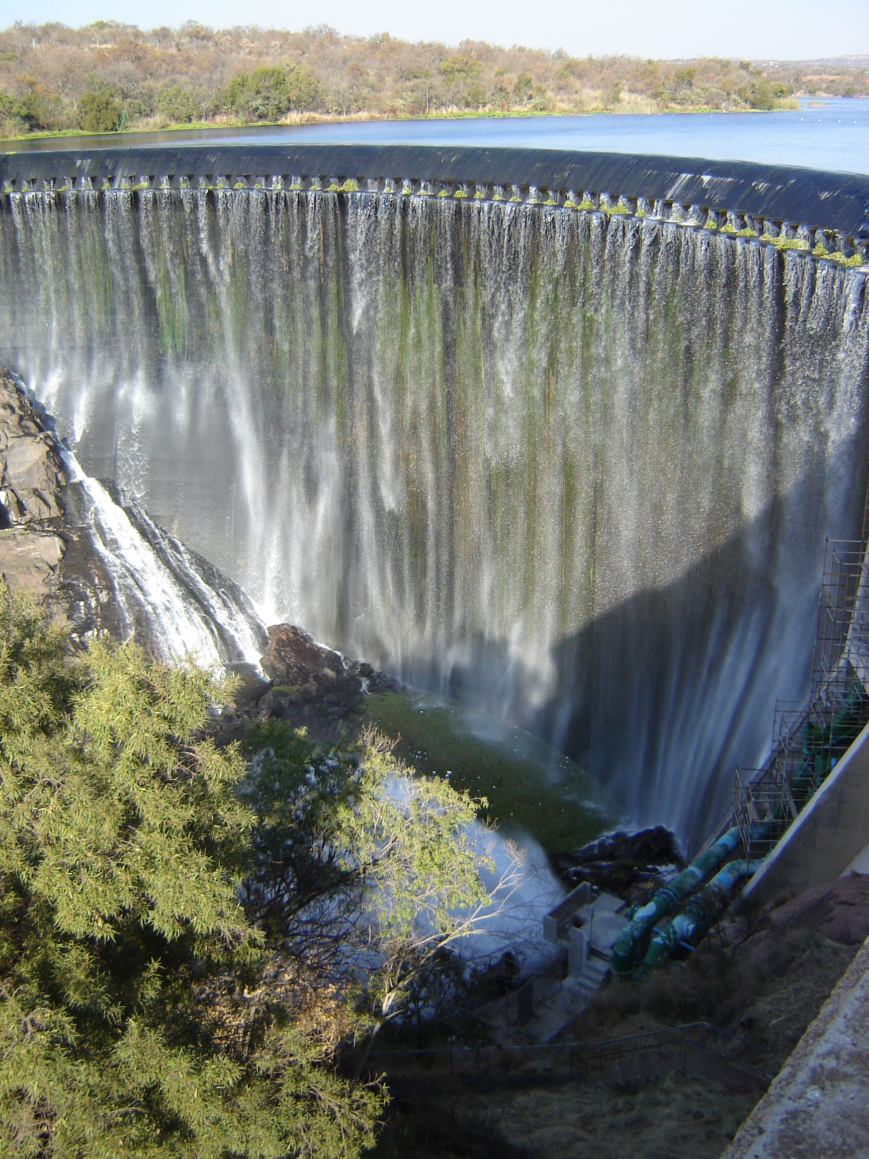 Roodeplaat Dam during the 2005 upgrade of the offtake structures